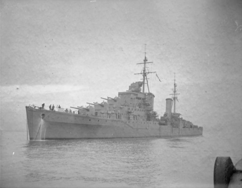 Photograph of British cruiser HMS Bonaventure.